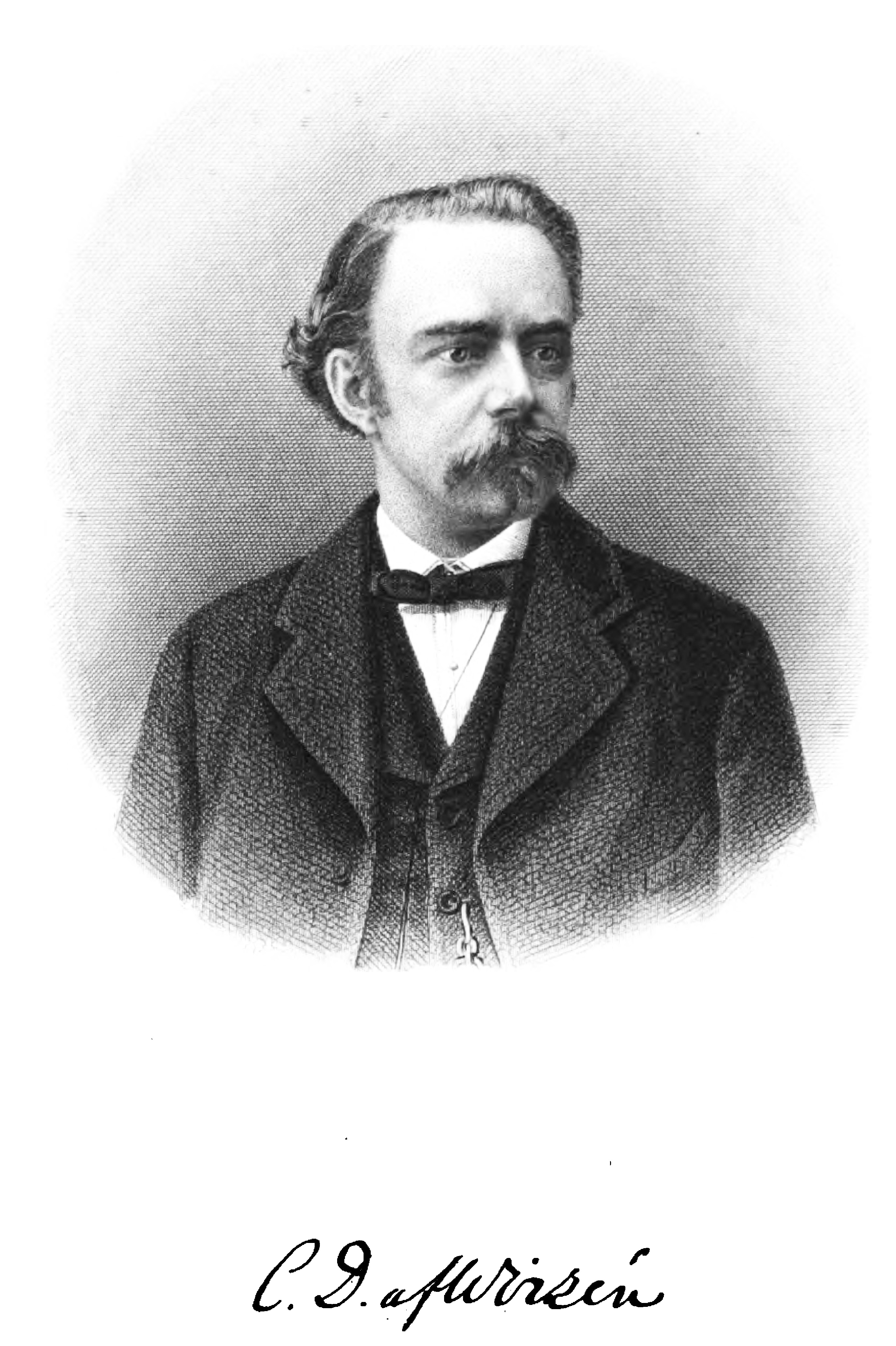 Carl David af Wirsén, swedish writer (1842-1912) with his signature.